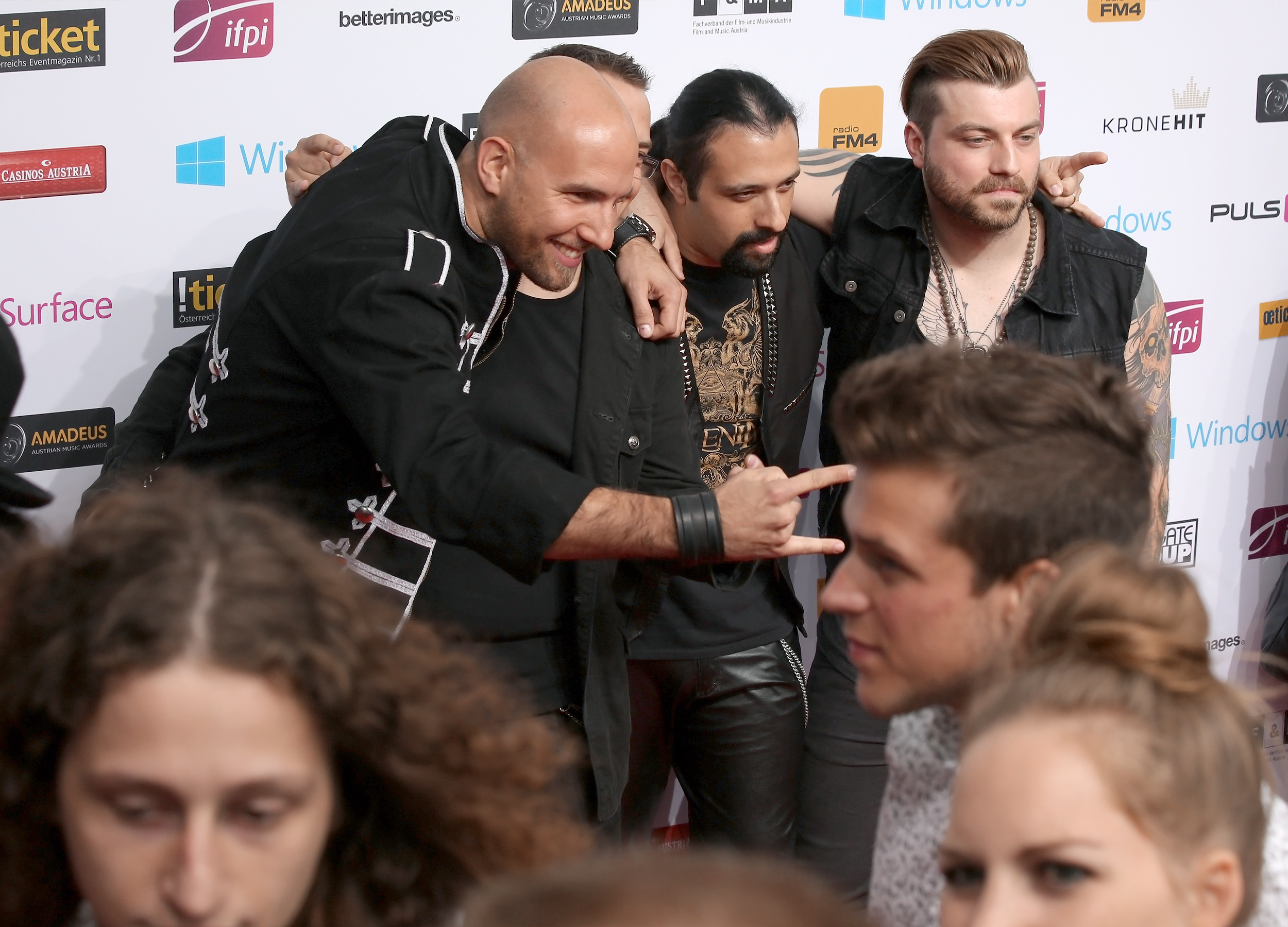 Serenity at the Amadeus Austrian Music Award 2014 at Volkstheater in Vienna